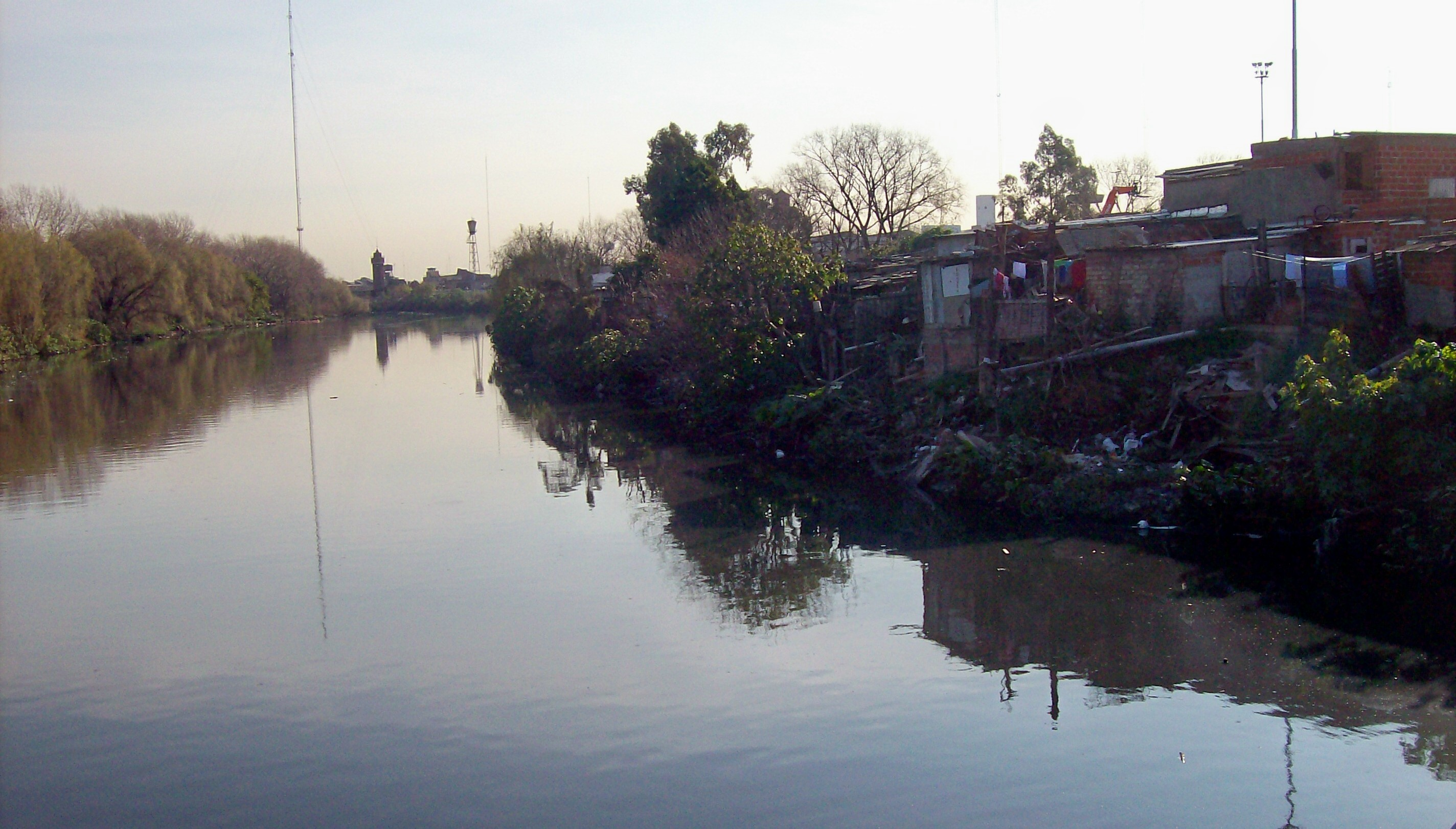 Riachuelo view from the Bosch bridge, in Barrio de Barracas, Buenos Aires, Argentina